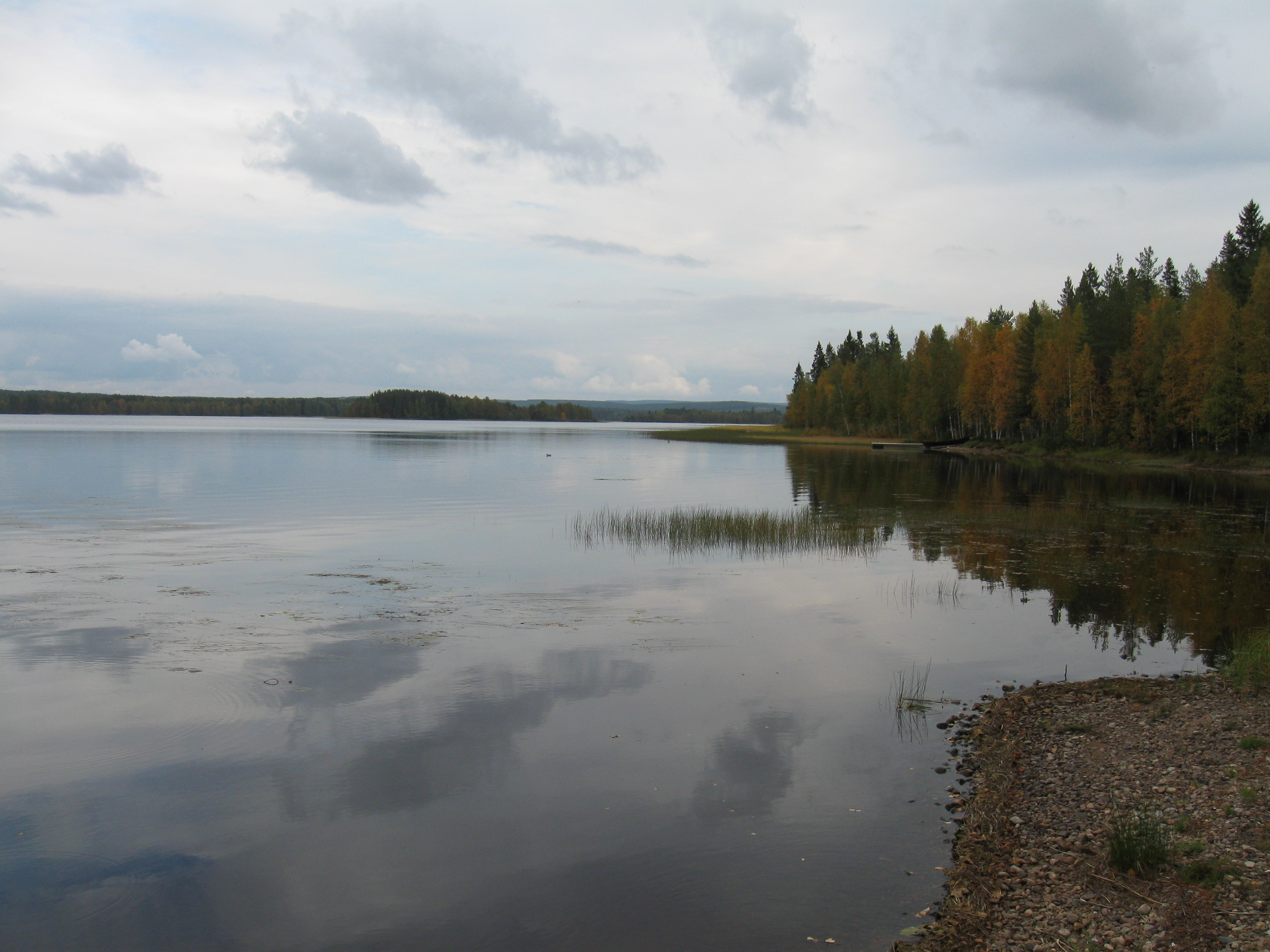 The lake Kivarinjärvi in Puolanka, Finland, seen from the Western shore at Lehtolanlahti towards the small island Jokelansaari in the East.